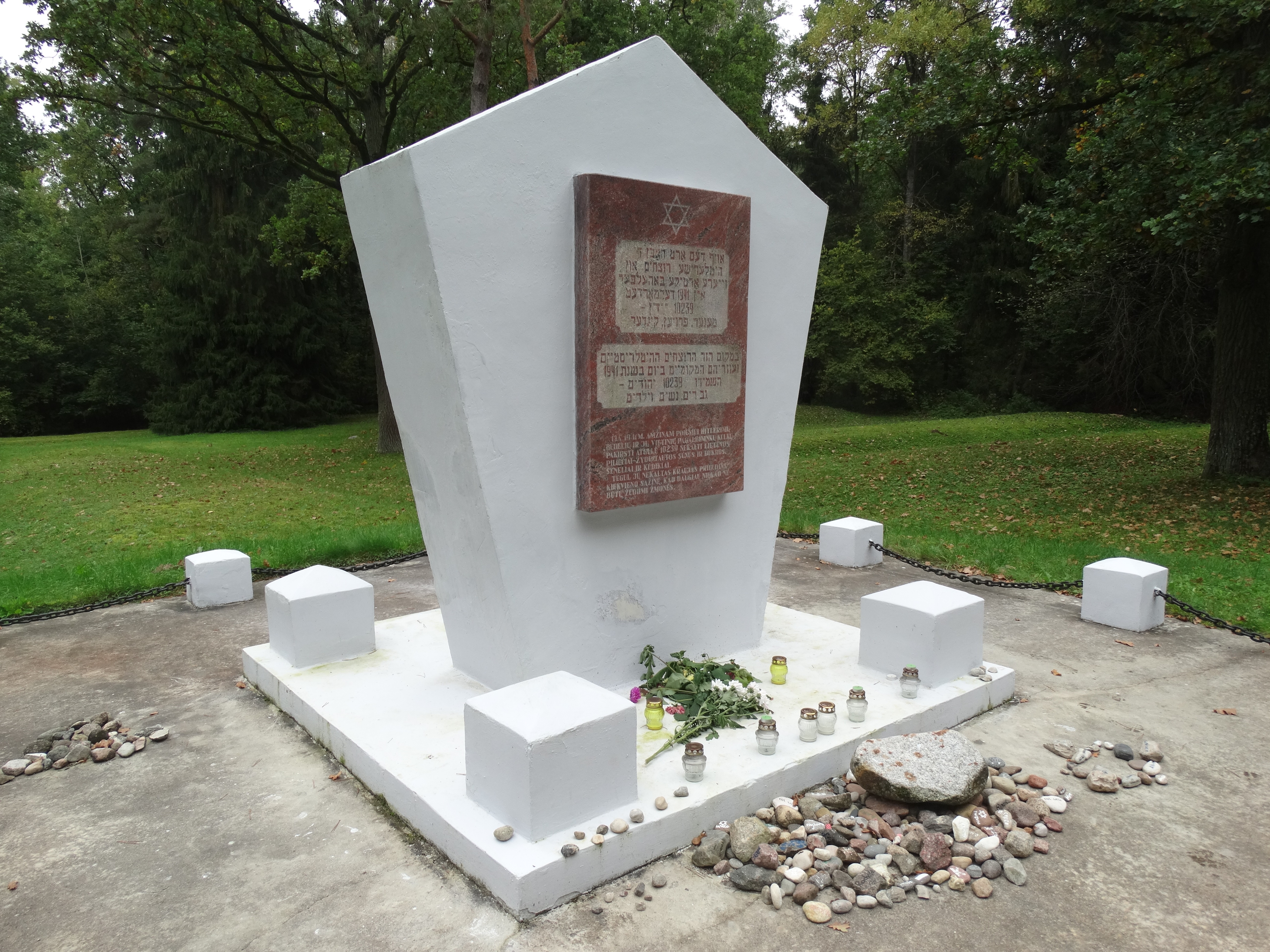 Monument to Holocaust victims, Pivonija Forest, Ukmergė district, Lithuania